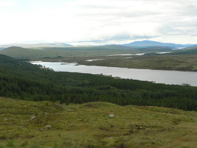 Loch Laidon. This is the northern end of the loch, with Loch Eigheach and Loch Rannoch in the distance. Beinn a' Chuallaich, at the eastern end of Loch Rannoch, is on the skyline.